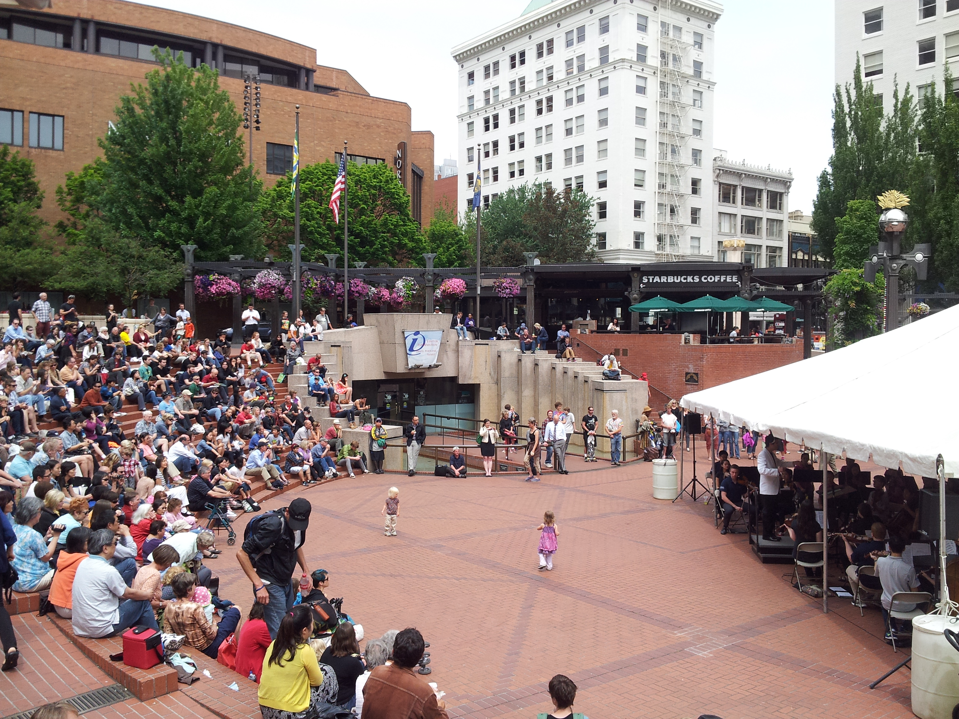 The Portland Youth Philharmonic performing at Pioneer Courthouse Square (2014)